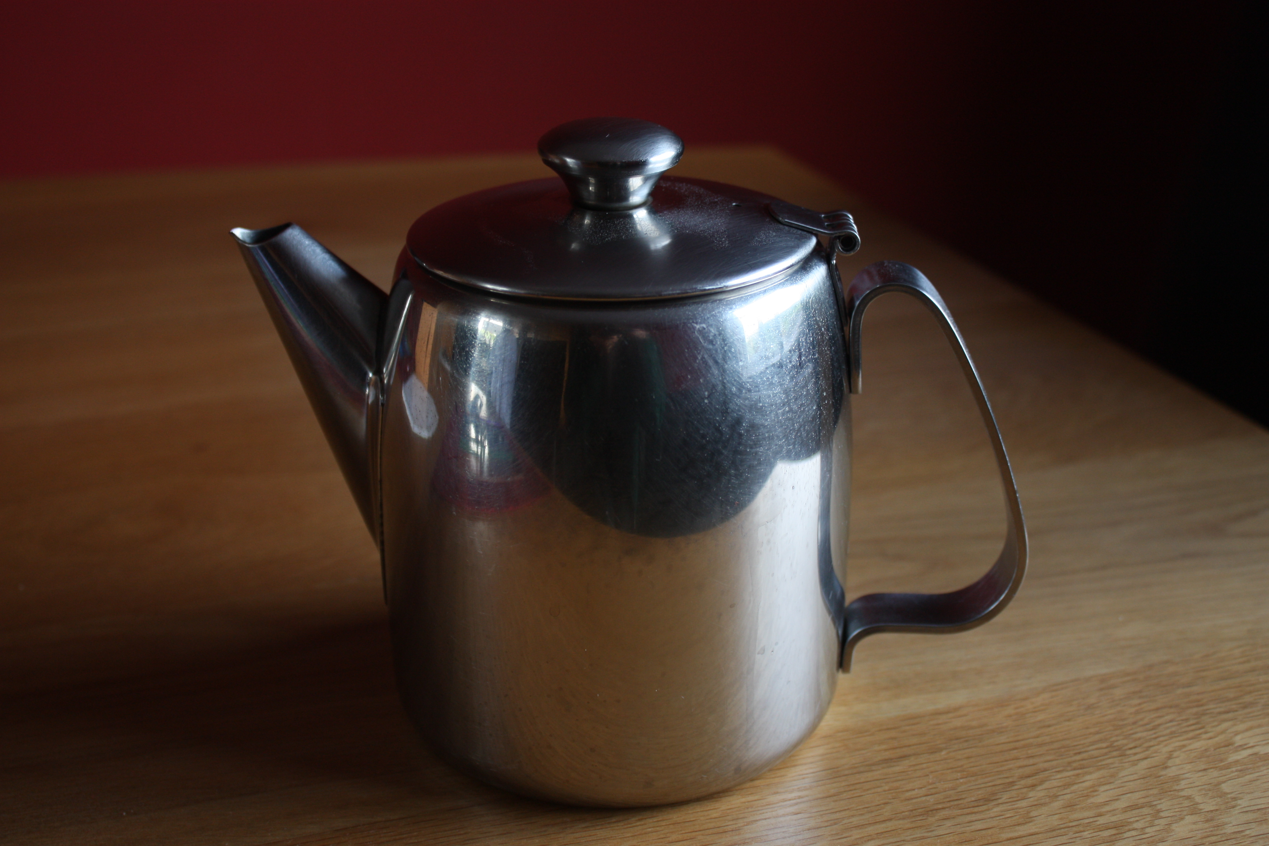 Tea pot, Downpatrick, County Down, Northern Ireland, September 2010